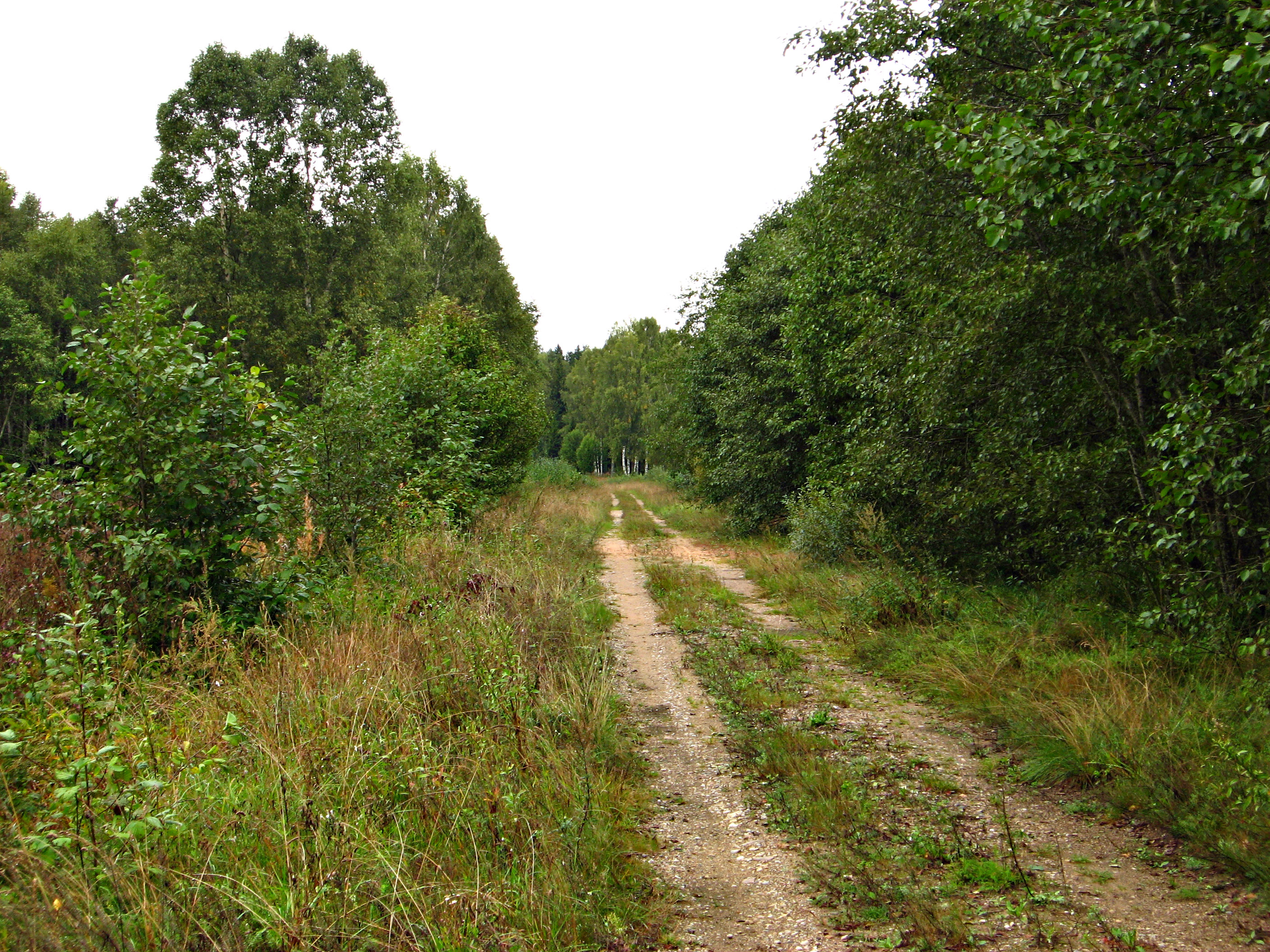 Vabole Parish, Latvia